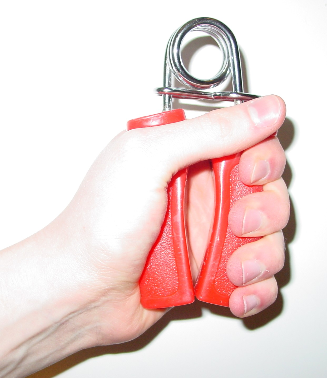 A typical sports-store hand gripper, held and photographed by Elfer. (del) (cur) 01:34, 30 January 2006 . . Elfer (Talk) . . 1242x1438 (203304 bytes) ( GFDL A typical sports-store hand gripper, held and photographed by Elfer.)